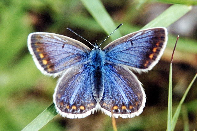 Picture taken in Commanster, Belgian High Ardennes . Species: Polyommatus icarus female